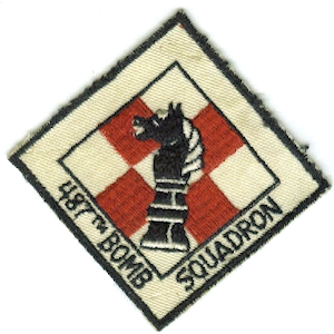 Emblem of the 487th Bombardment Group (SAC)